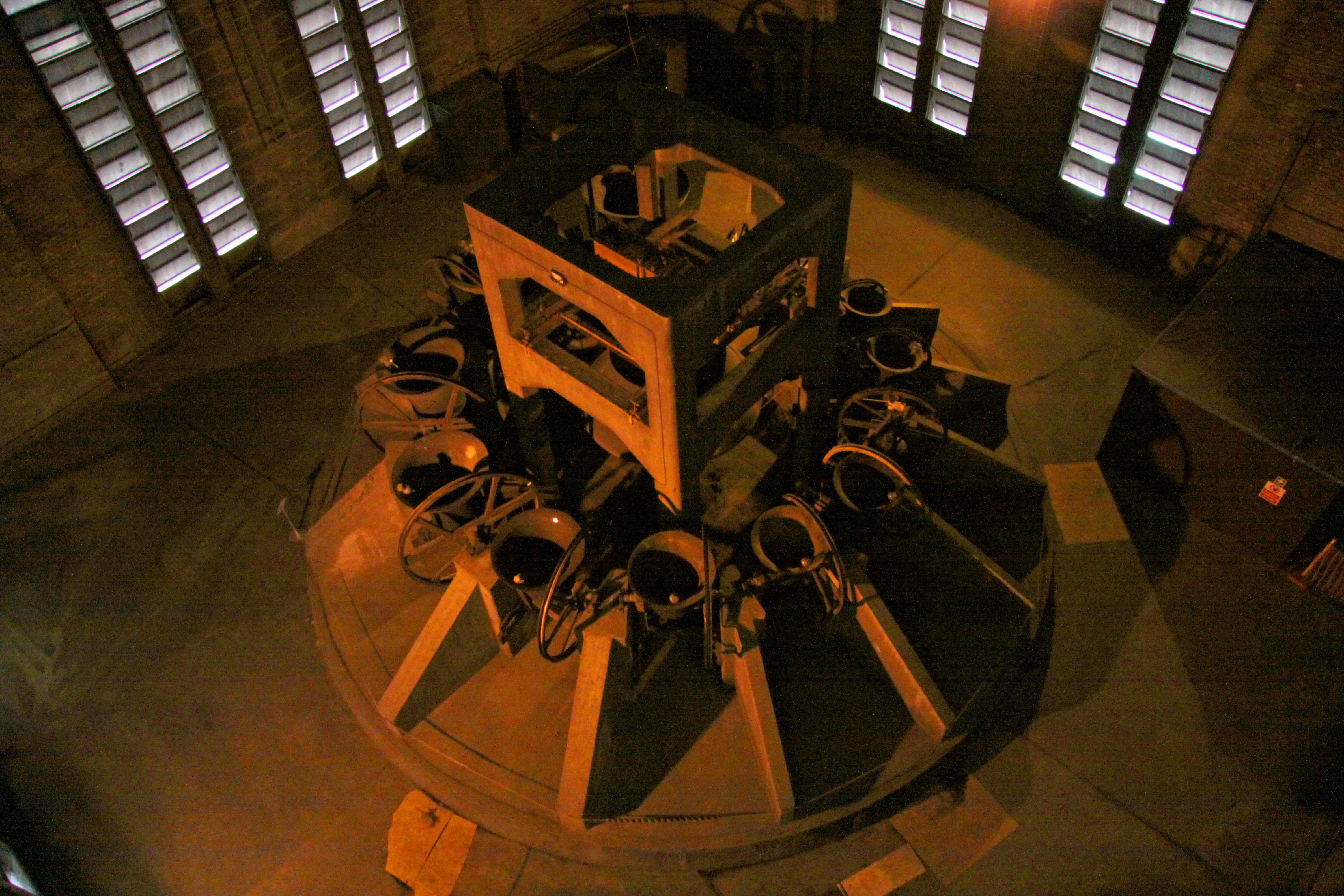 Bells of the Anglican Cathedral, Liverpool, UK.